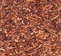 Honeybush Tea